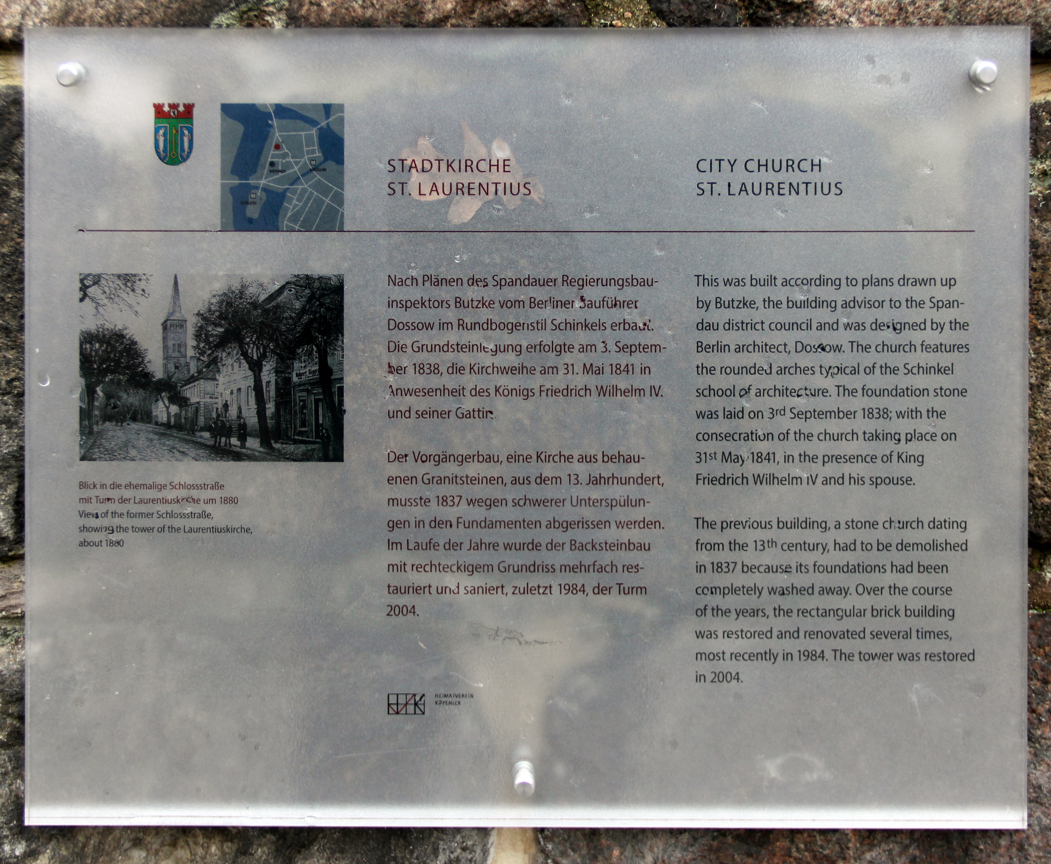 Memorial plaque, St.-Laurentius-Stadtkirche, Alt-Köpenick 9, Berlin-Köpenick, Deutschland